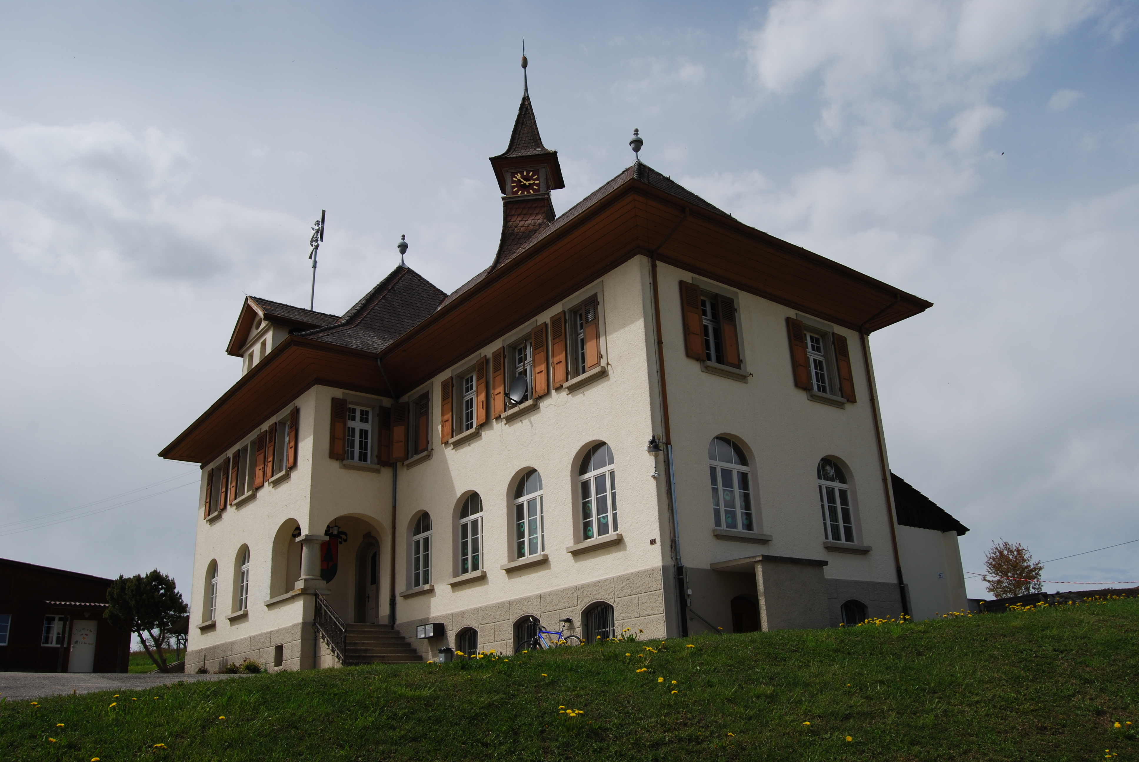 Gempenach, canton of Fribourg, SwitzerlandEsperanto: Gempenach, Kantono Friburgo, Svislando